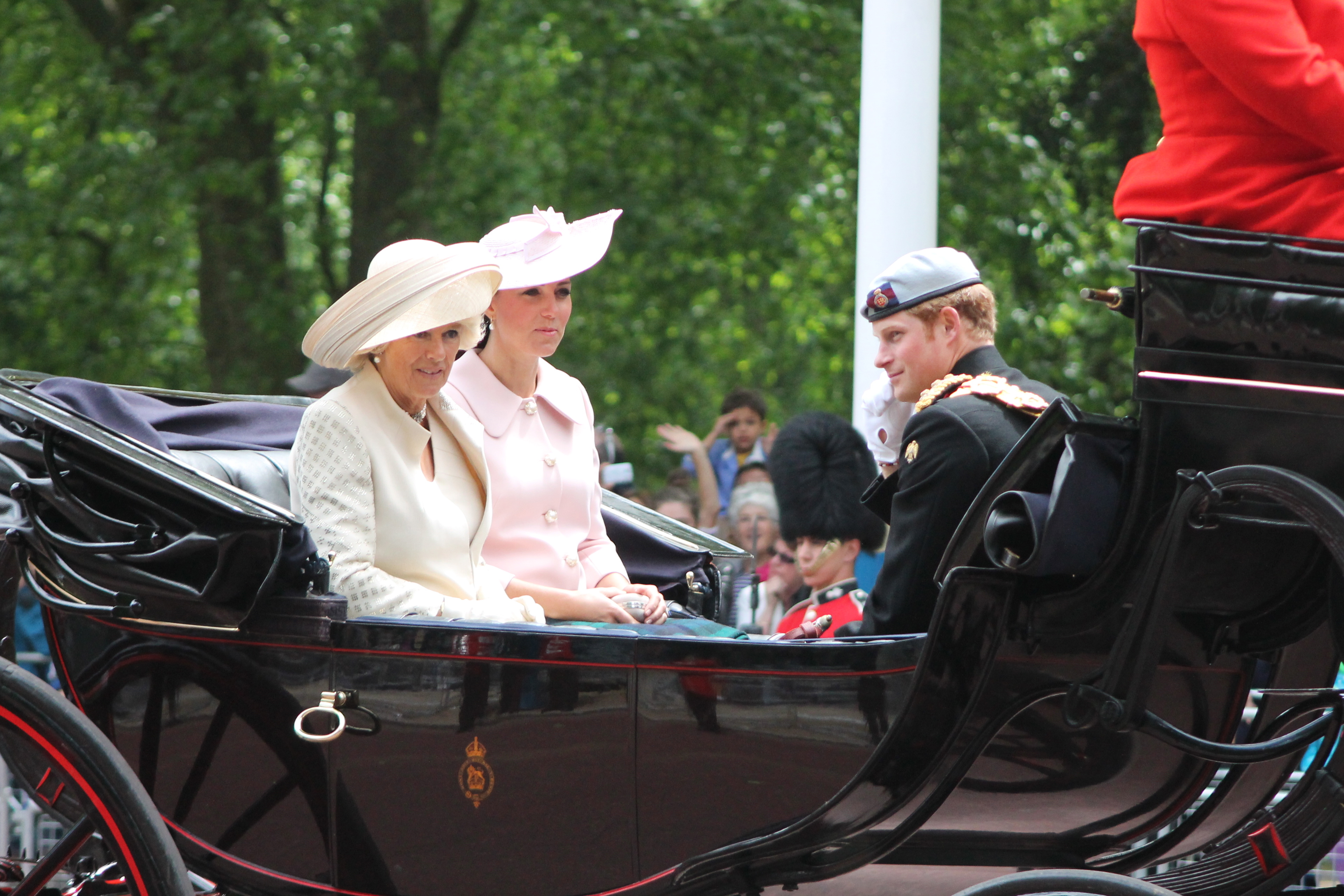 The Duchess of Cornwall, the Duchess of Cambridge and Prince Harry, Trooping the Colour 2013